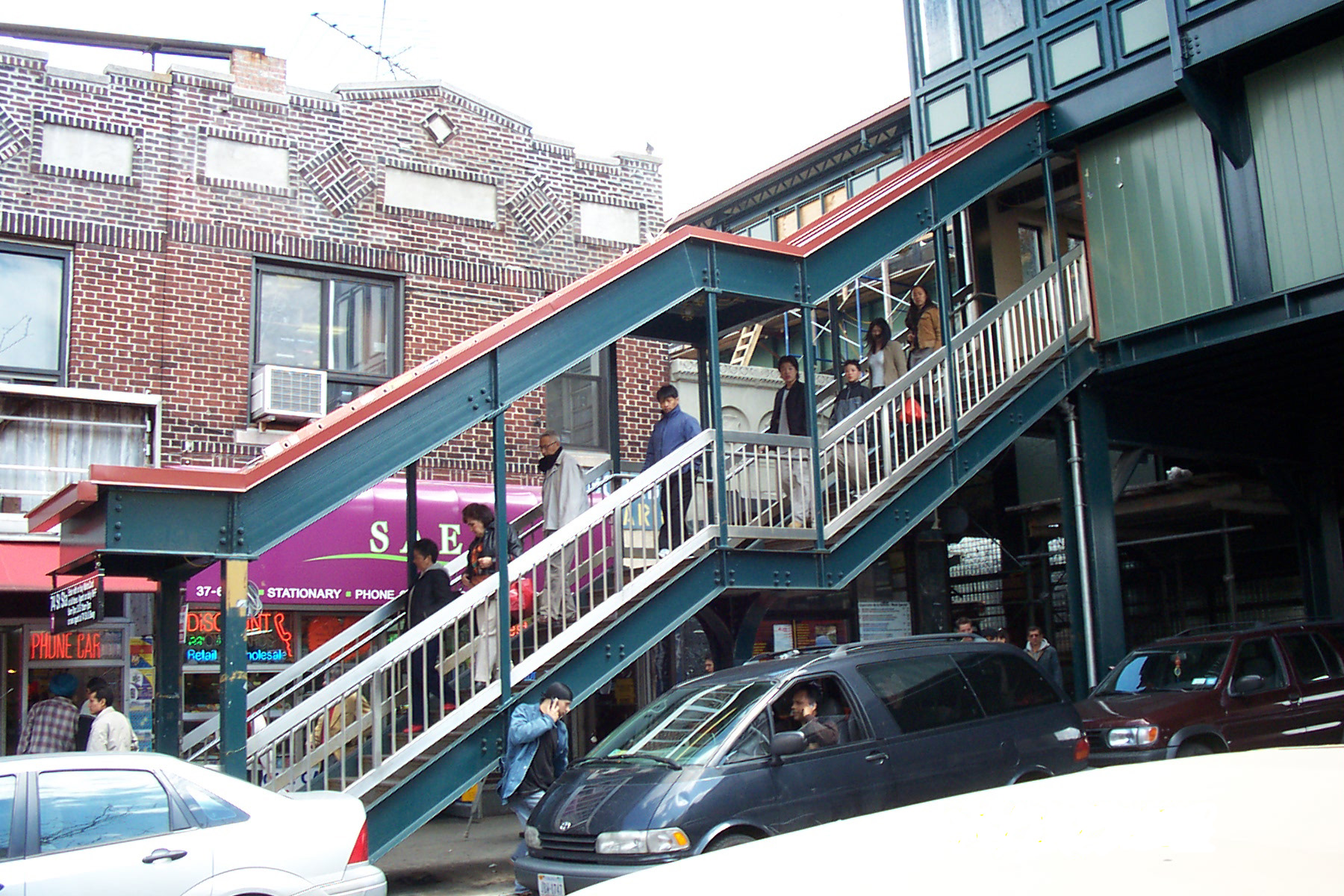 A station for the elevated No. 7 line of the New York City Subway in Jackson Heights, Queens.